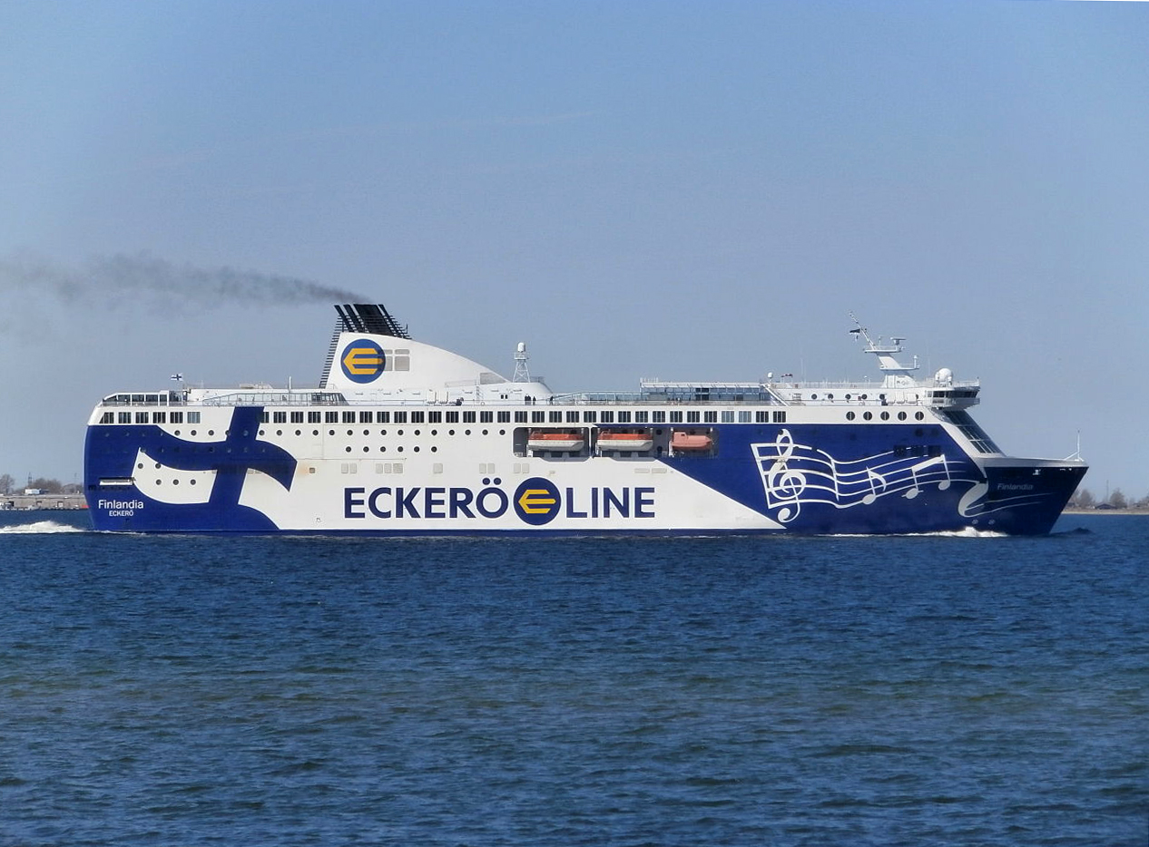 Finlandia Starboard Side Tallinn 24 April 2014